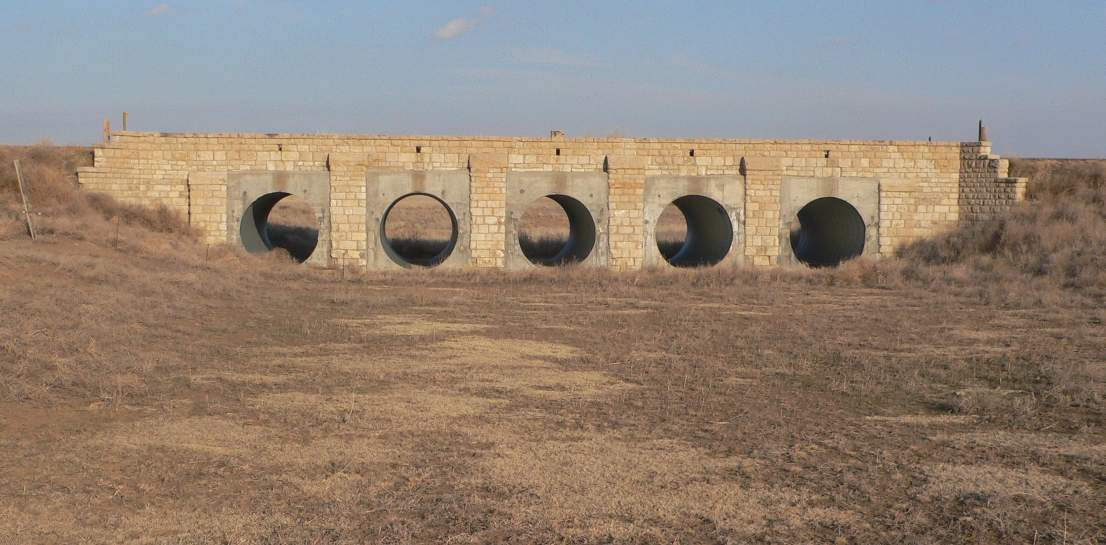 WPA bridge carrying county road 9 across an ephemeral watercourse just north of county road Y in rural Morton County, Kansas; seen from the west (from upstream).